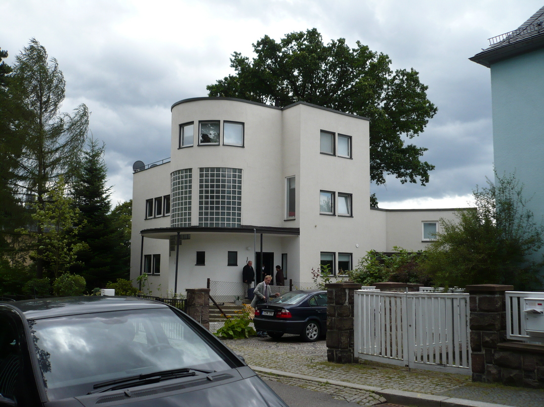 Villa Feistel, Chemnitz, built 1928 by architect Max W. Feistel